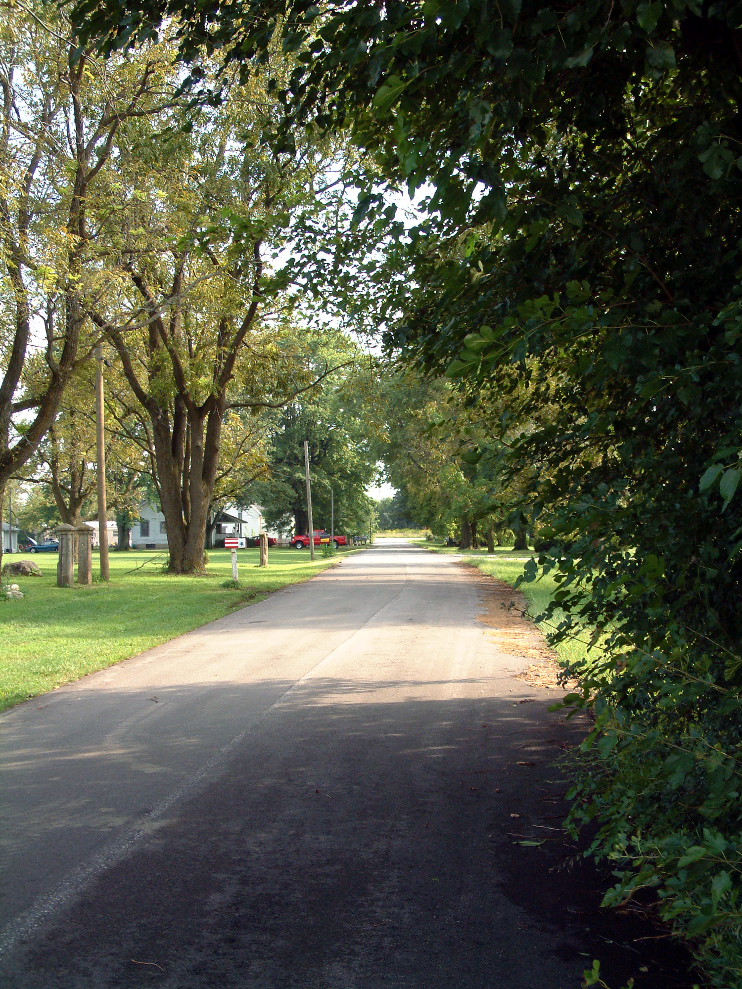 Foliage overhangs a street in the small town of Odell, Indiana. Photo looks south along County Road 900 West.